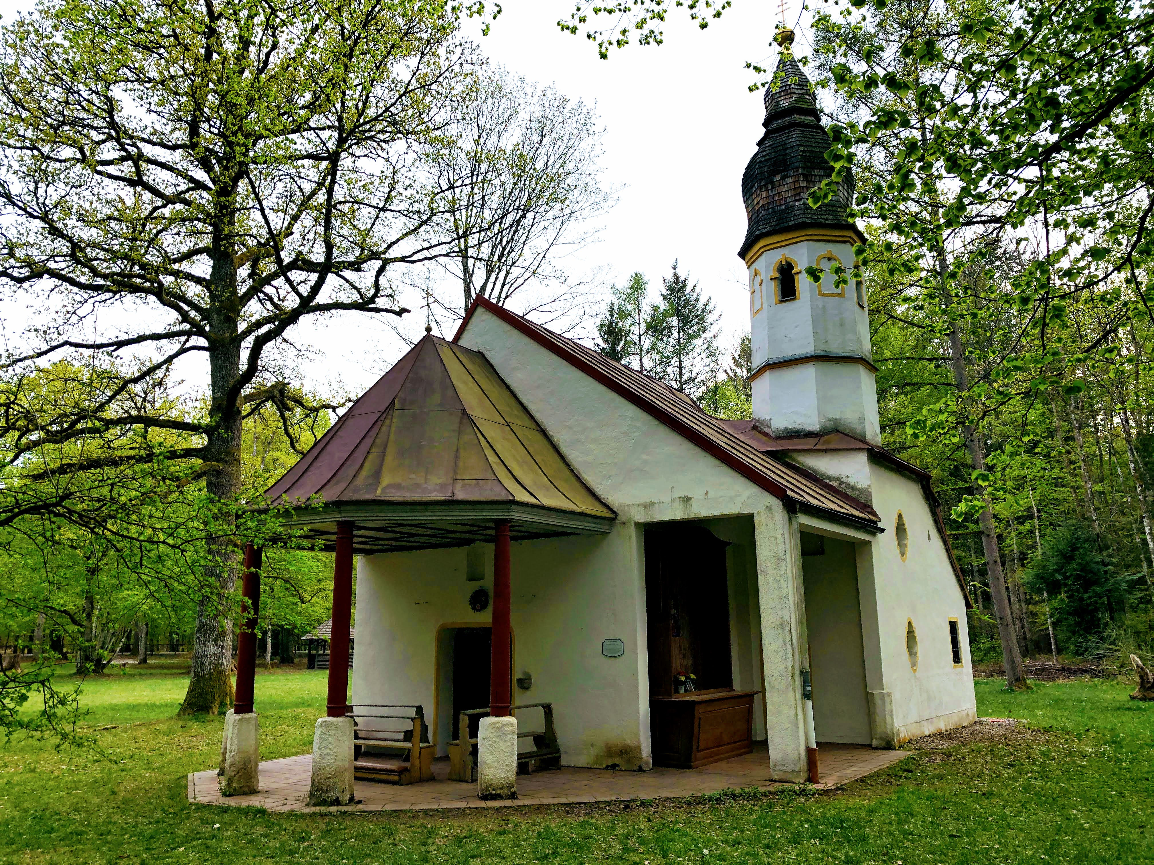 Deisenhofener Forst, Bavaria, St.Anna Chappel